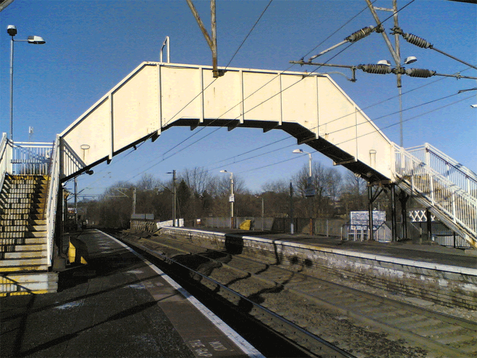 Jordanhill railway station, Glasgow: The bridge between platforms. Picture taken by Erath on March 2, 2006.